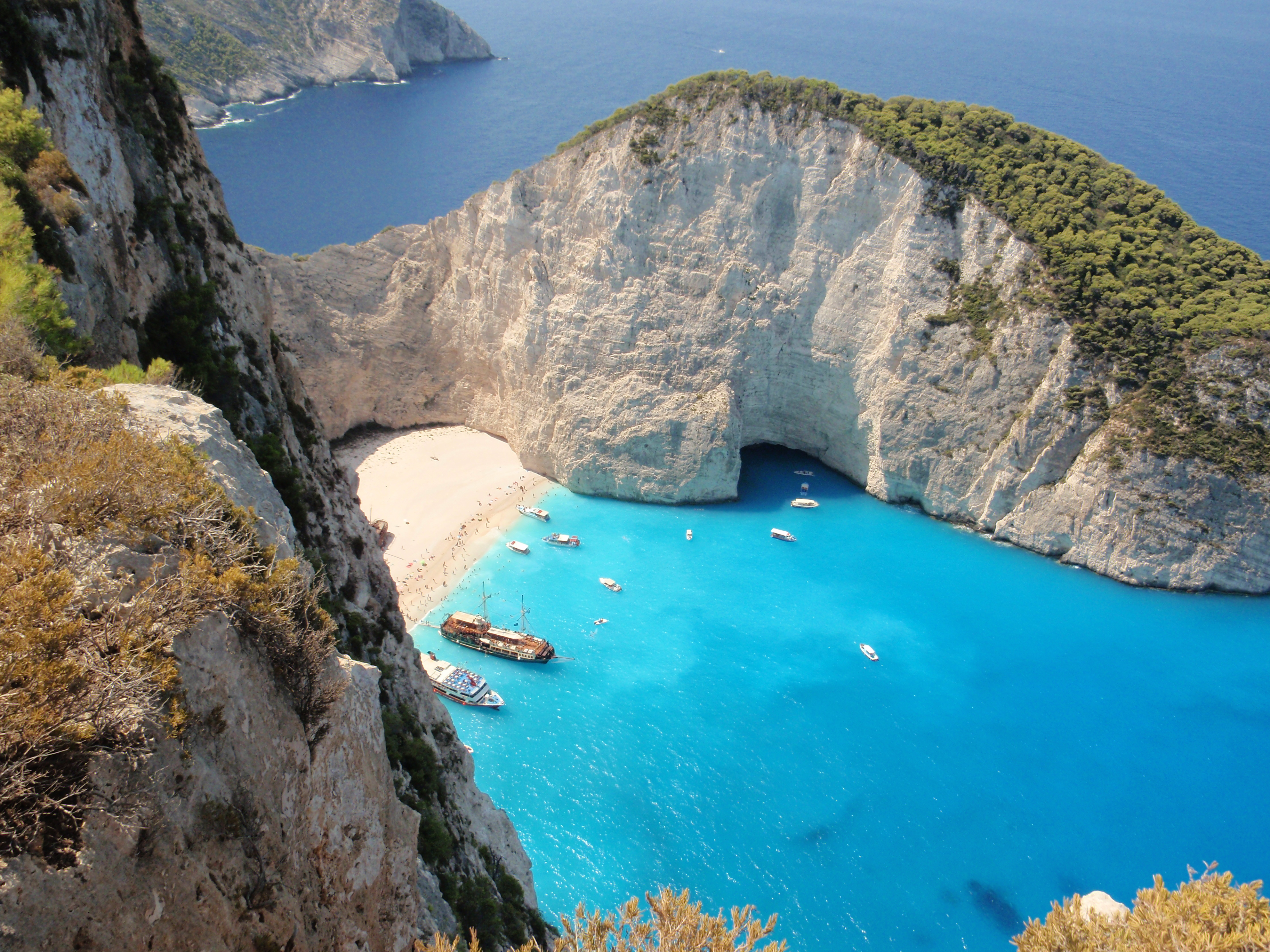 This is a photography of Natura 2000 protected area with ID GR2210001